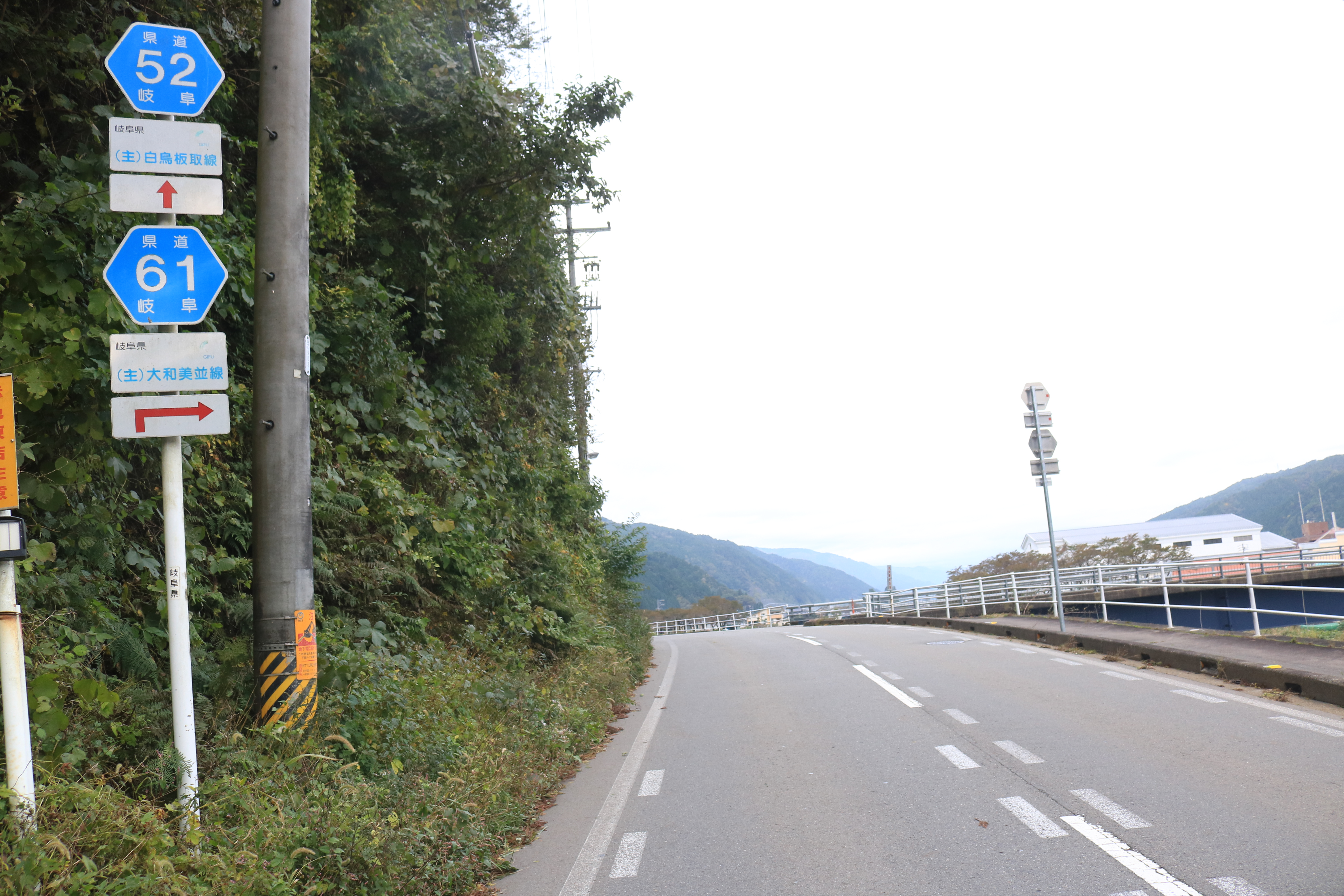 Gifu Prefectural Road Route 52 and Gifu Prefectural Road Route 61 in Shima, Yamatocho, Gujo, Gifu prefecture, Japan.